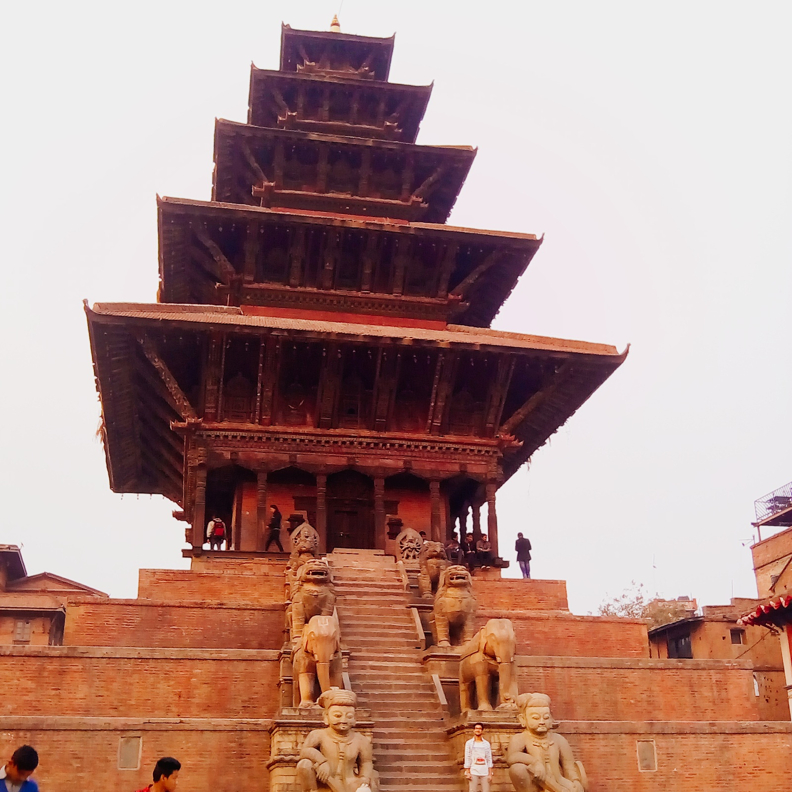 this is one of the historic and oldest temple of Nepal located in the world heritage site Bhaktapur Durbar Square